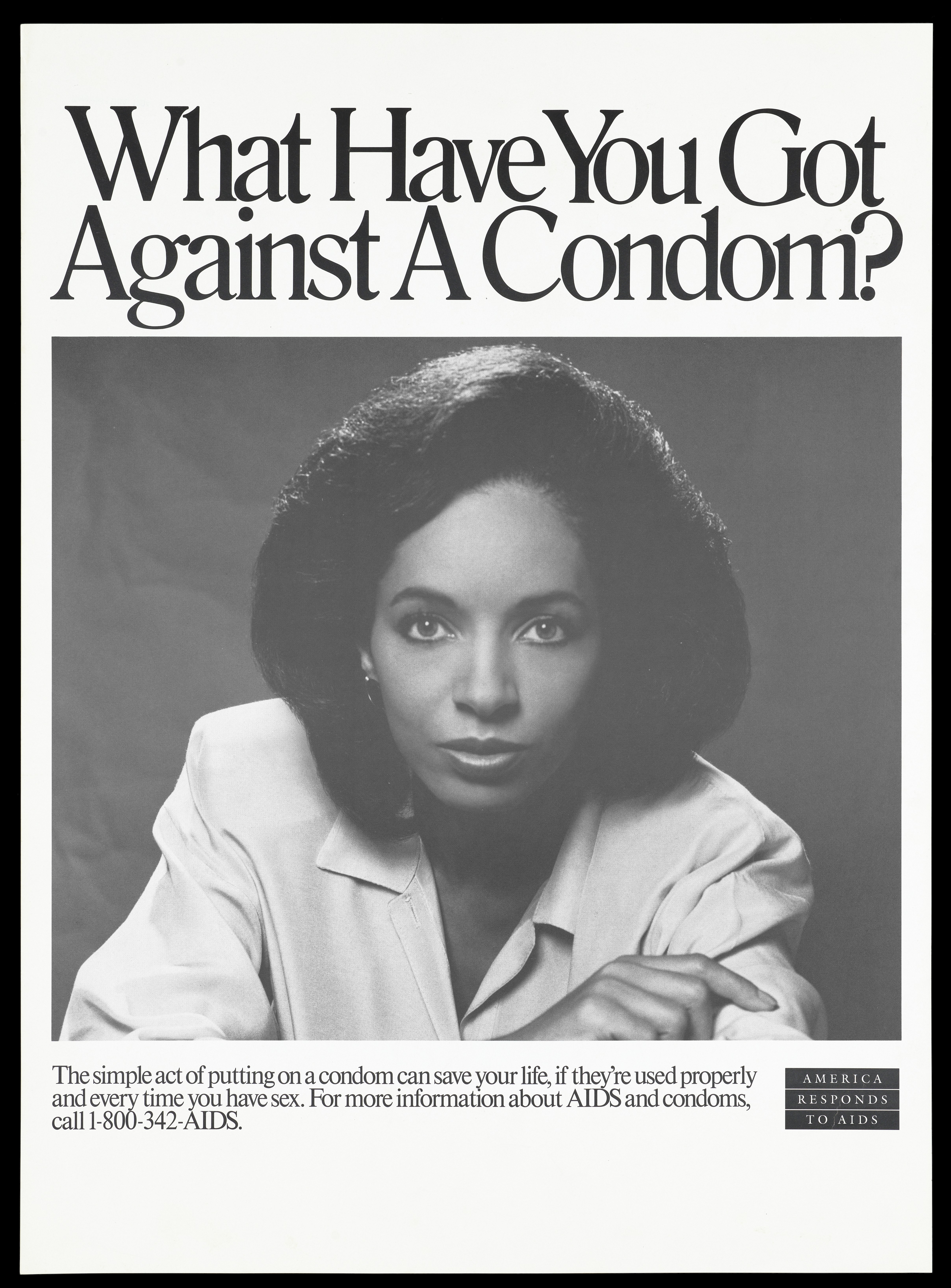 A black woman with one hand on her arm looks directly at the viewer with the words 'What have you got against a condom?'; advertisement for safe sex to prevent AIDS by the U.S. Department of Health and Human Services. Black and white lithograph. Iconographic Collections Keywords: AIDS; United States. Dept. of Health and Human Services.; AIDS Posters; Market; AIDS poster